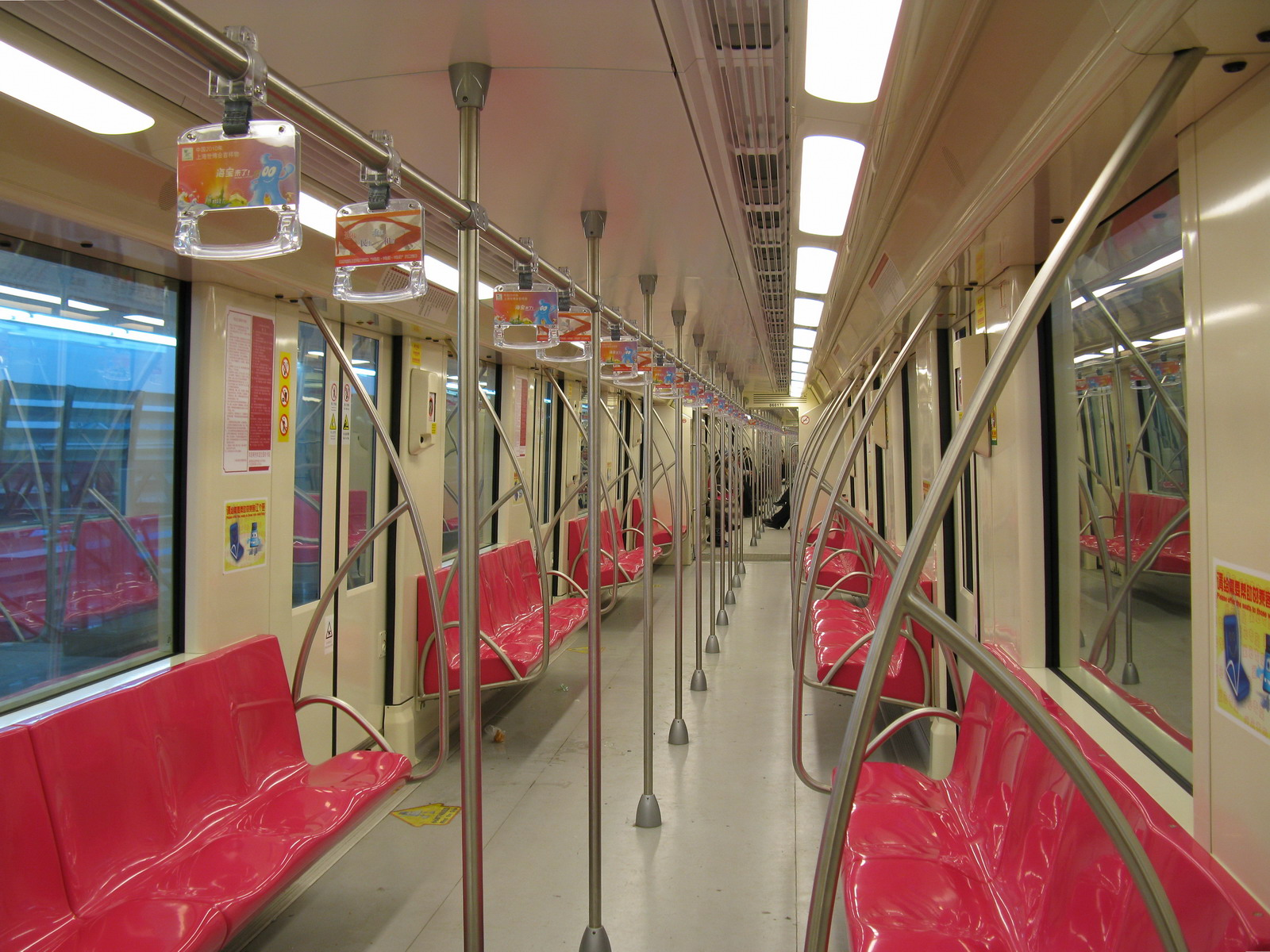 上海軌道交通6號線列車車廂 Interior of Shmetro Line 6 Train